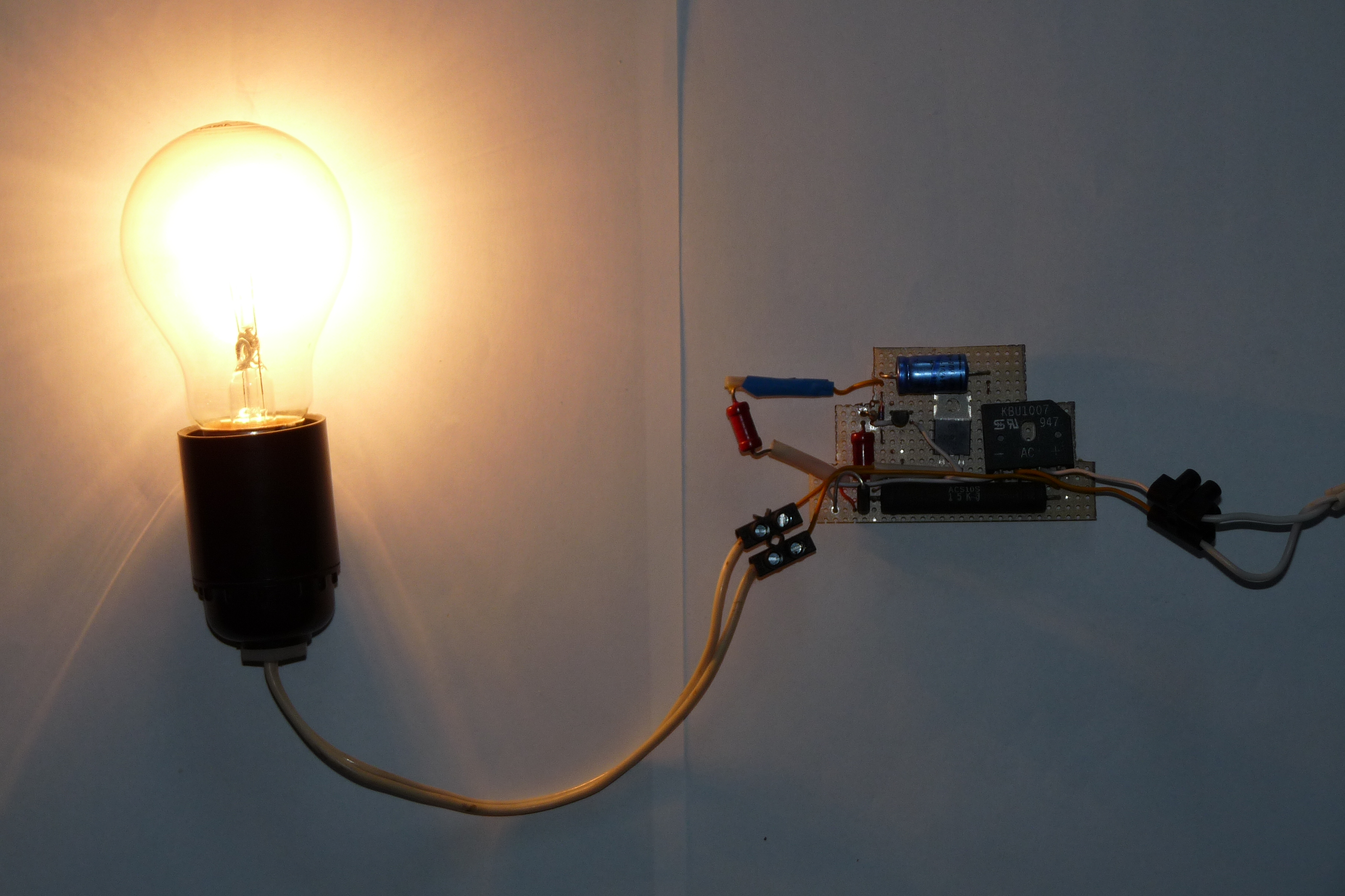 Light bulb starting from 30% power, increasing to 100% power. Explanation about it's working here NB! Trying it, please use non-condustive cover!